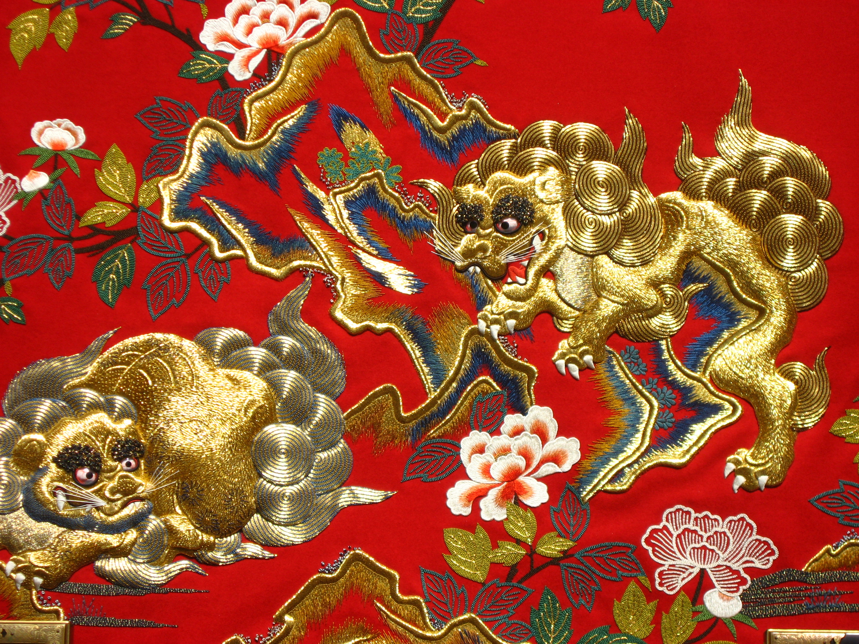 Traditional Japanese embroidery on a festival cart.